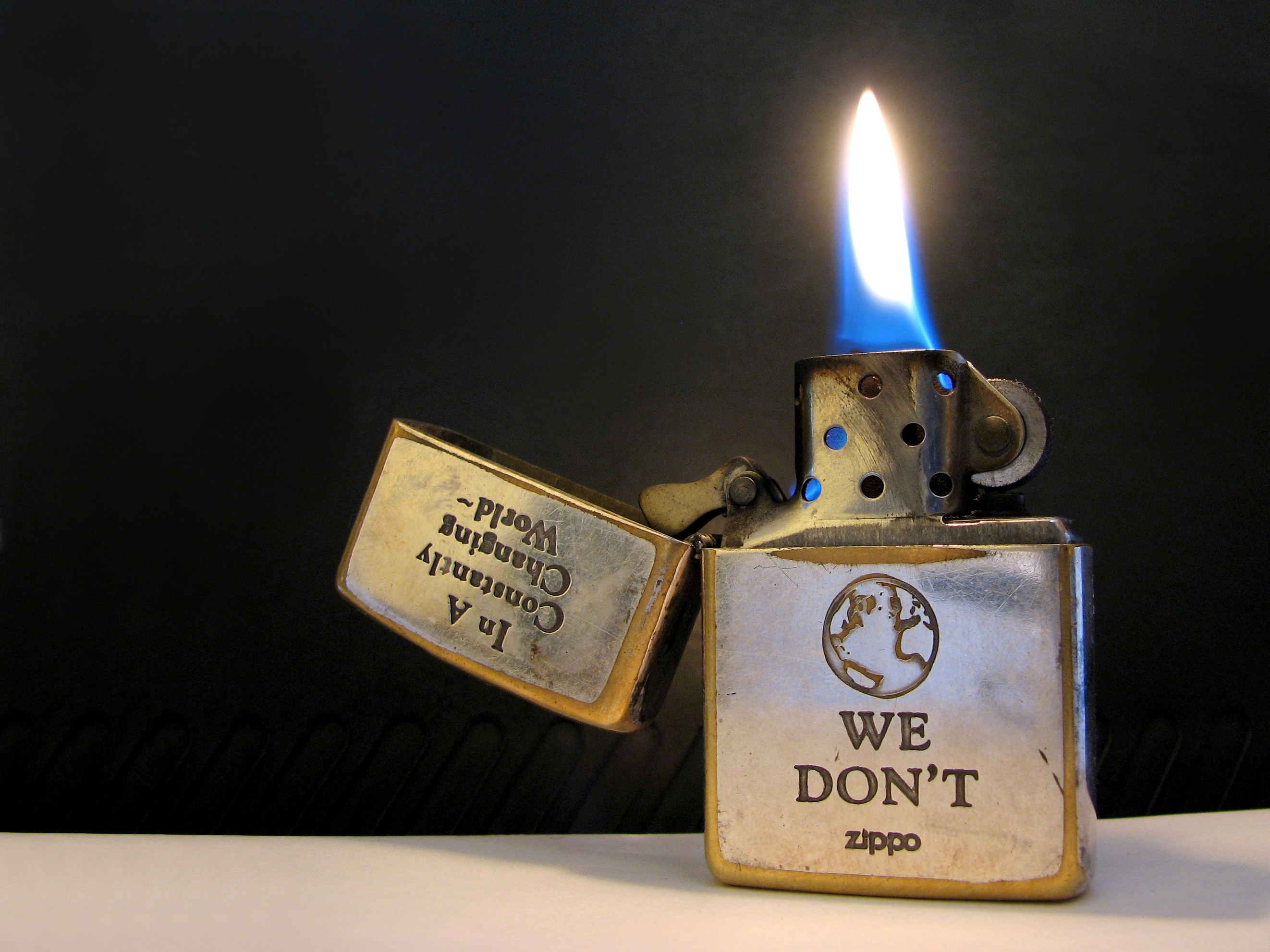 Zippo lighter (front, light)